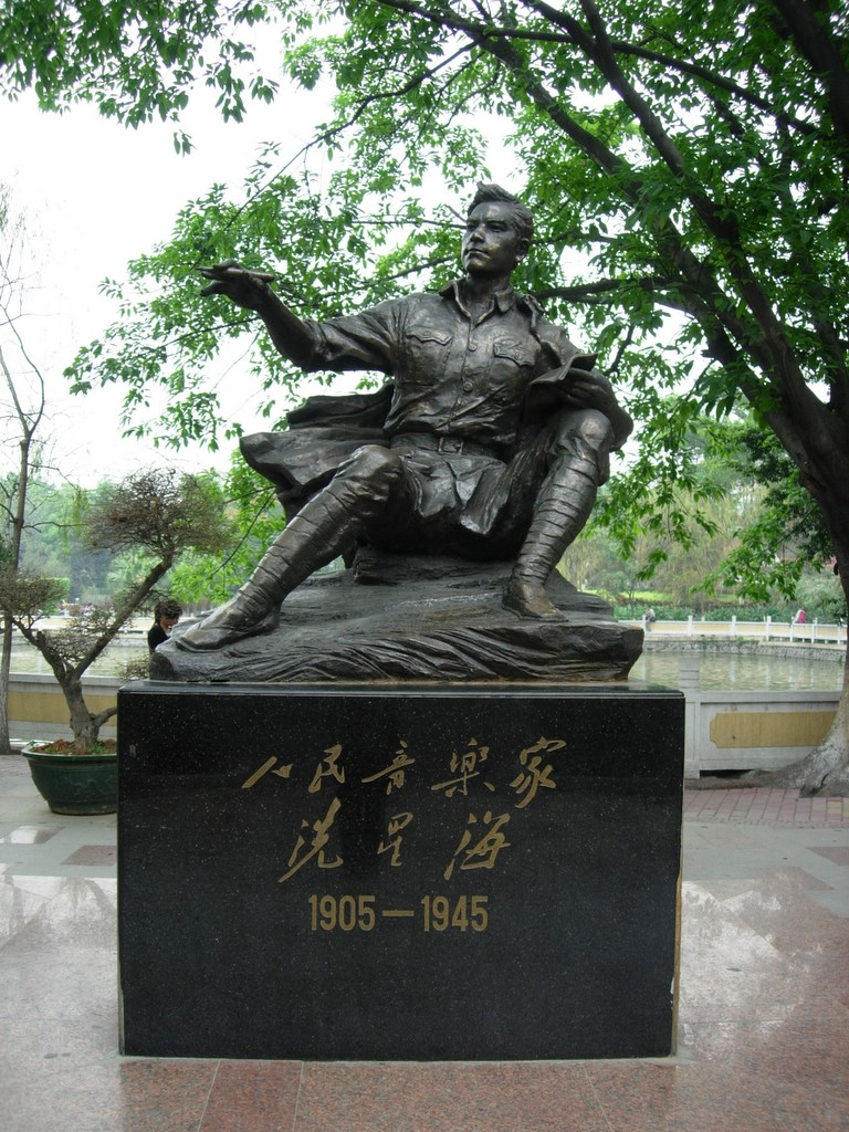 Sinn Sing Hoi Statue, 番禺星海公园冼星海雕像， Photo by Memes